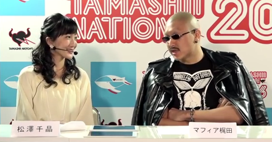 Chiaki Matsuzawa, Announcer of the Horipro Inc., and Mafia Kajita, writer, attended the Tamashii Nation 2016 at Akihabara UDX in Chiyoda Ward, Tōkyō Metropolis on October 28, 2016.